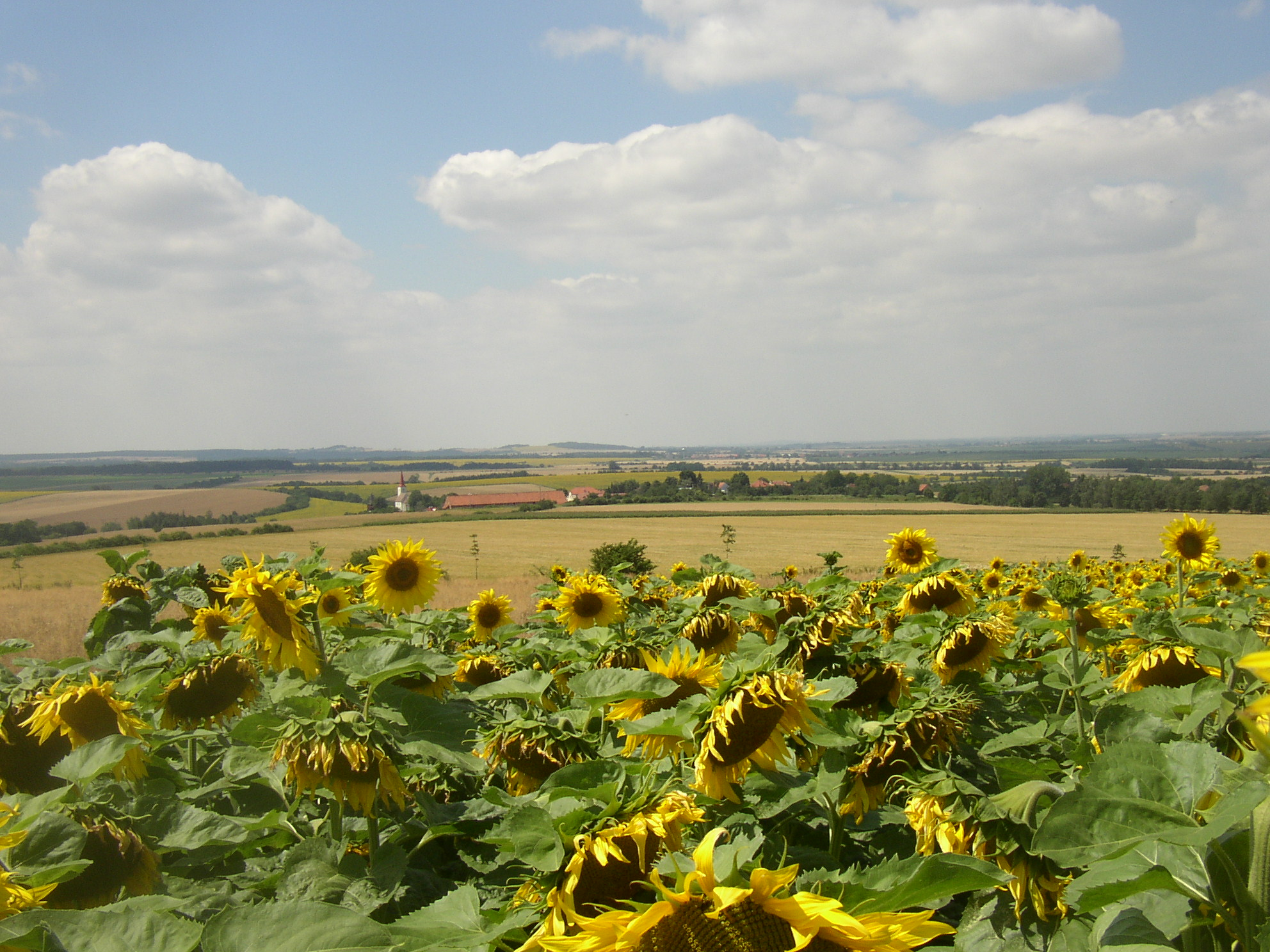 Vitice, Kolín District, Czech Republic. A view from east, from the field which was the site of Battle of Lipany in 1434. The trees on the right side beyond the field mark the road between Vitice and Lipany. Due to terrain only upper part of the village is visible from this spot.